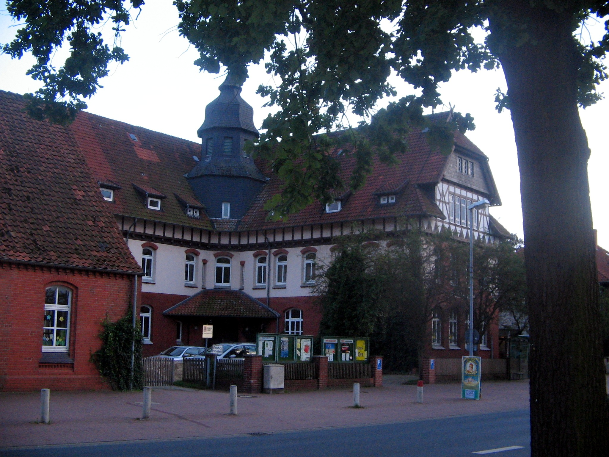 elementary in Burgwedel near Hannover/Germany photo taken on August 2005